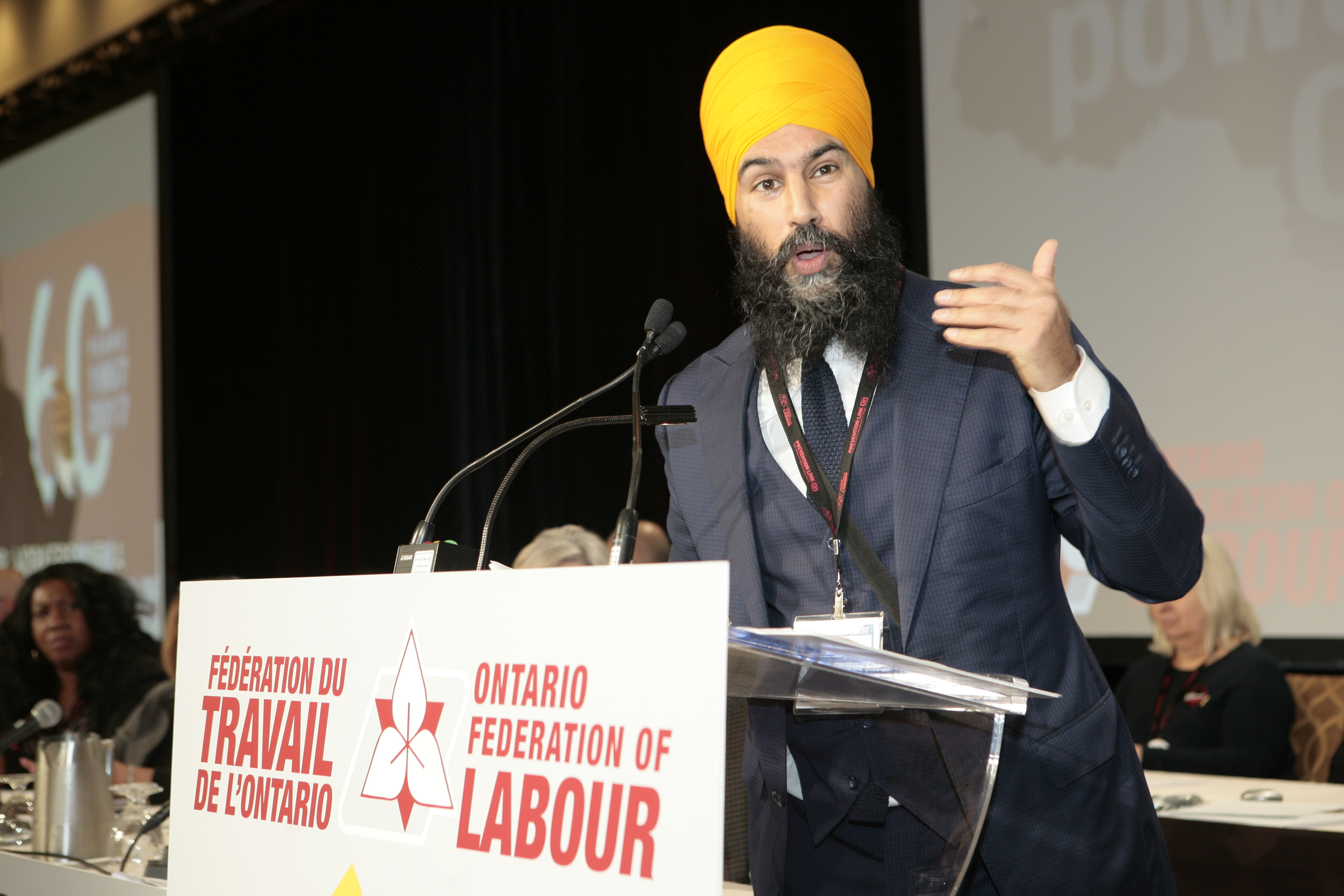 Jagmeet Singh at the Ontario Federation of Labour Convention